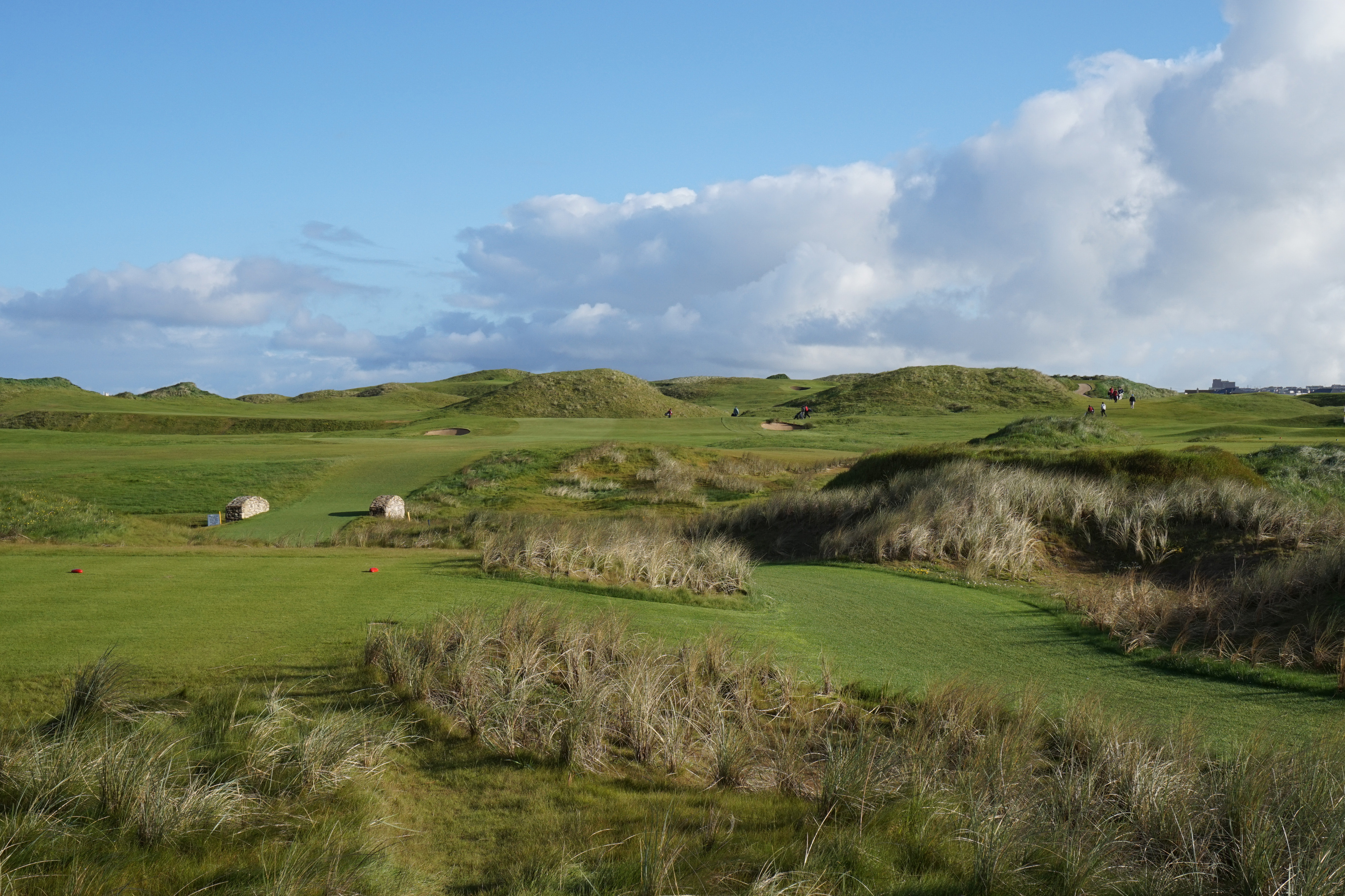 View of the Old Course at Ballybunion Golf Club, County Kerry, Ireland